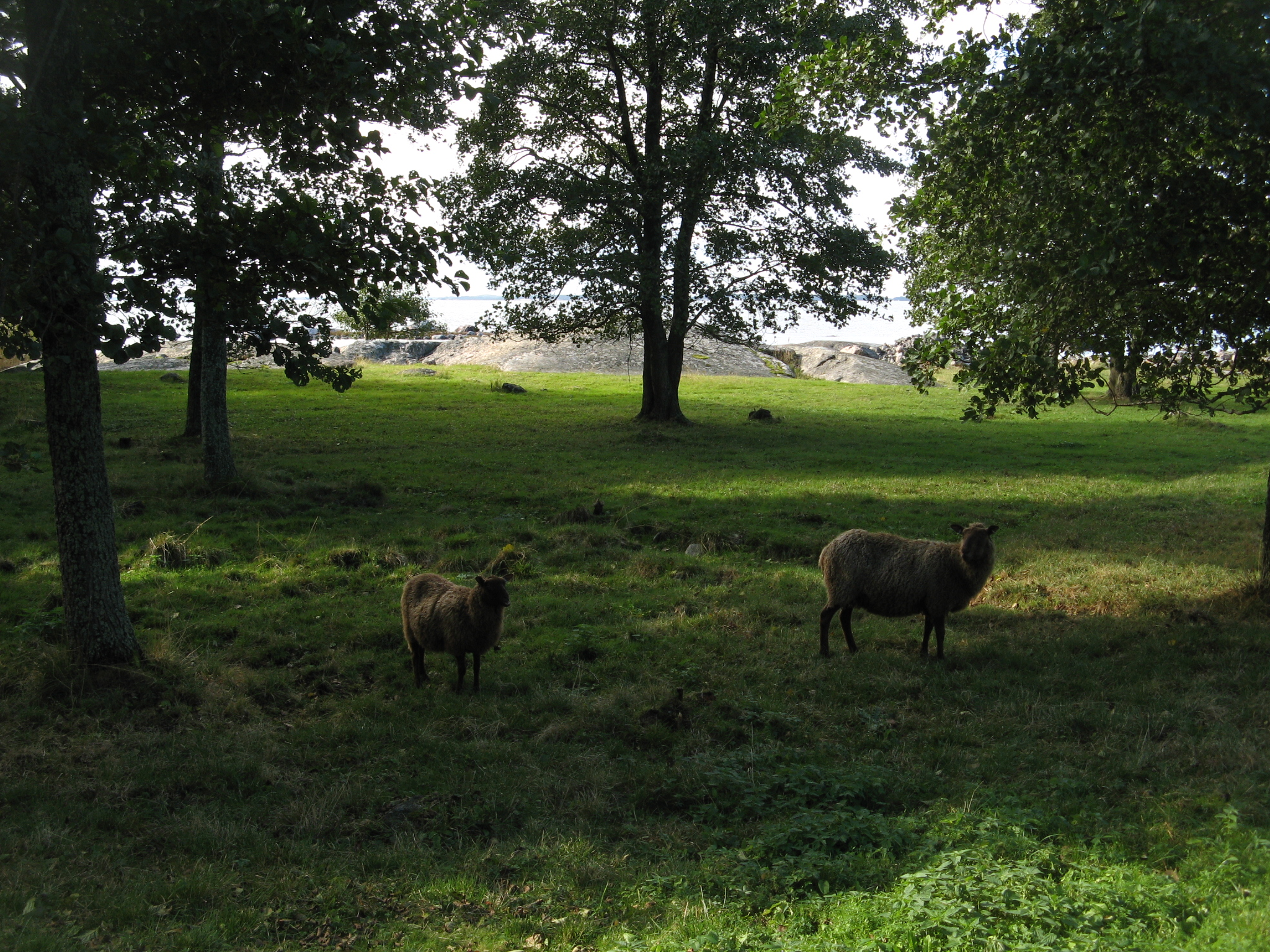 Sheep keeping the landscape open on Kråkskär in the Archipelago national park. The sea is seen in the background, with other islands at the horizon.